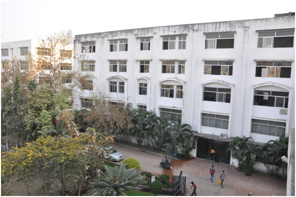 FIEM Campus